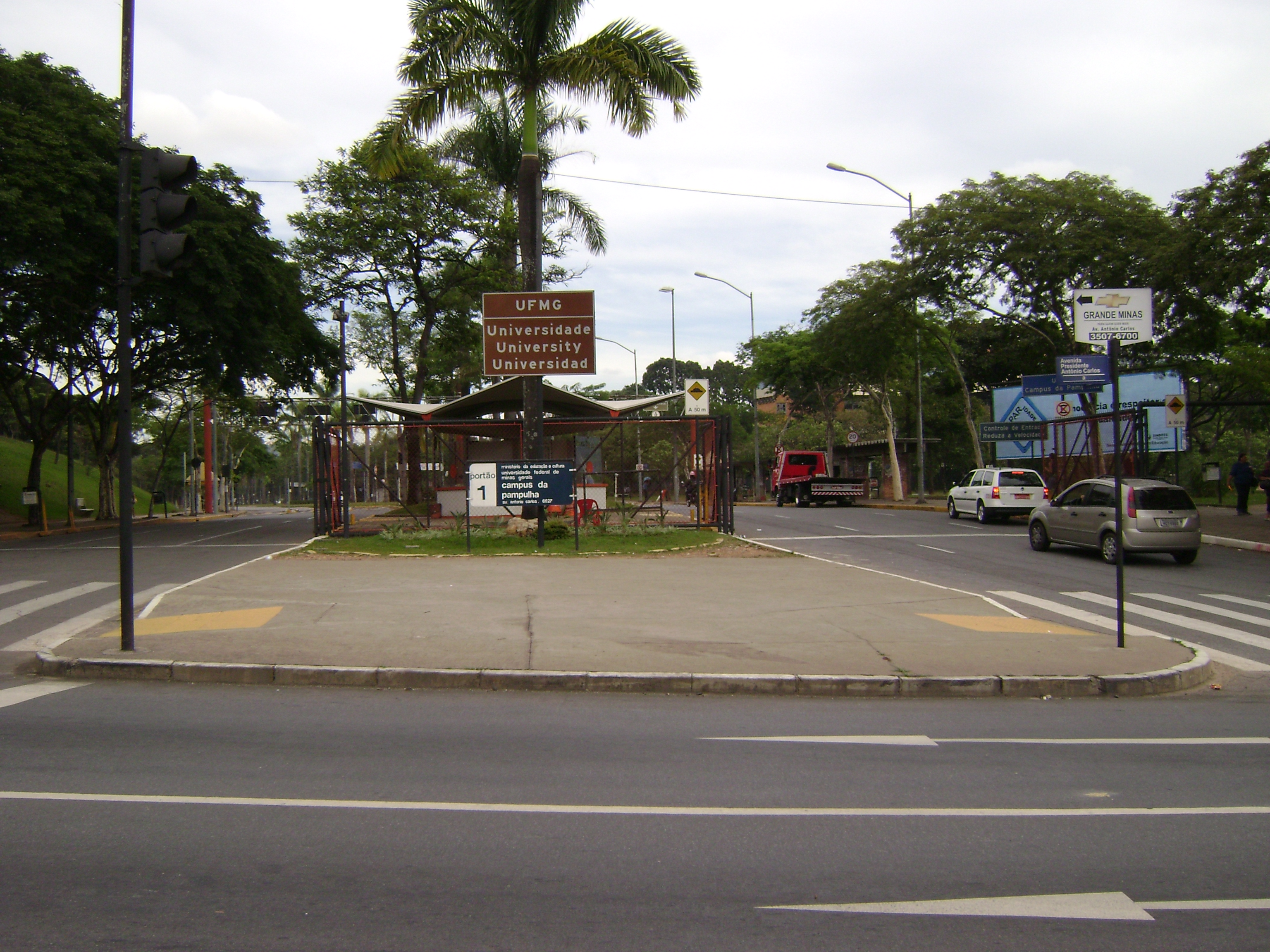 Entrance of campus Pampulha of Universidade Federal de Minas Gerais (Federal University of Minas Gerais), in Belo Horizonte, Brazil.